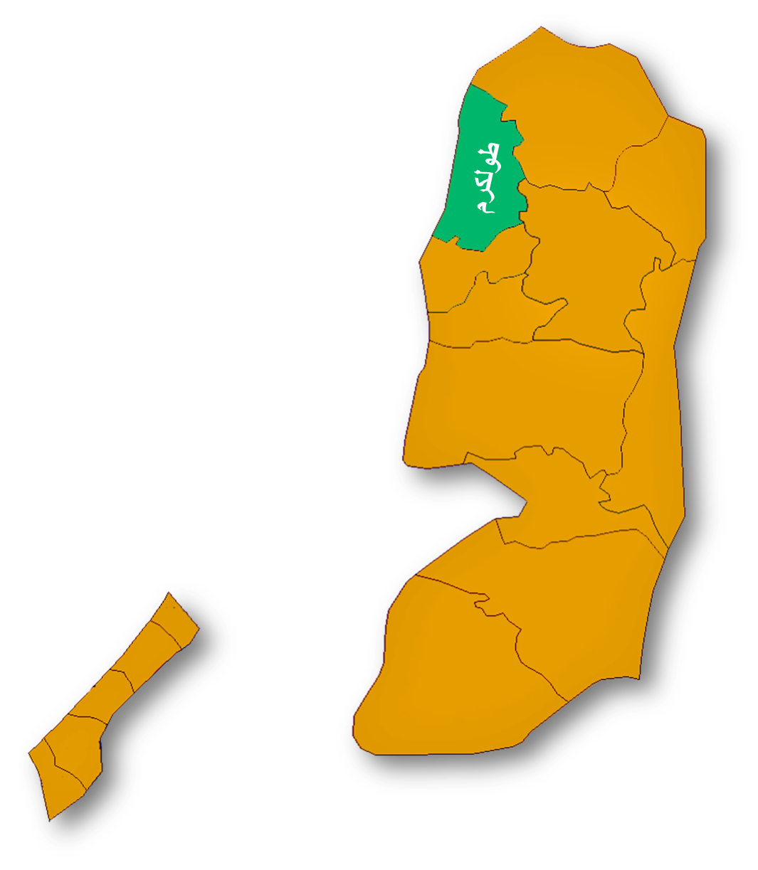 Map of the Palestinian Authorities showing the Governate of Toulkarem